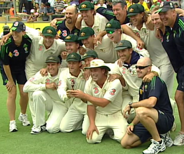 Taken by me at the WACA in Perth the day that Australia regained the Ashes. Celebration.